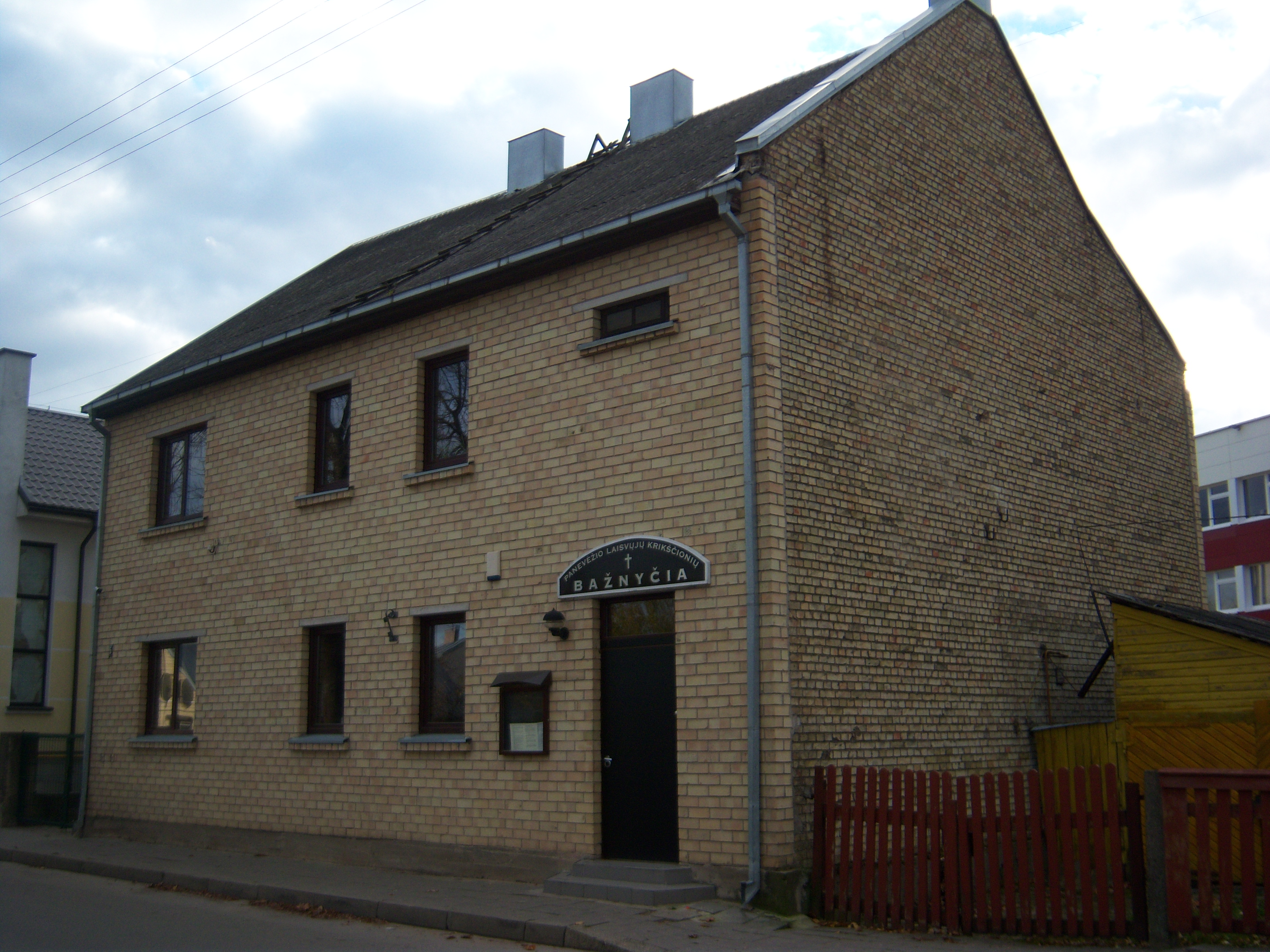 Free Church in Panevėžys, Lithuania